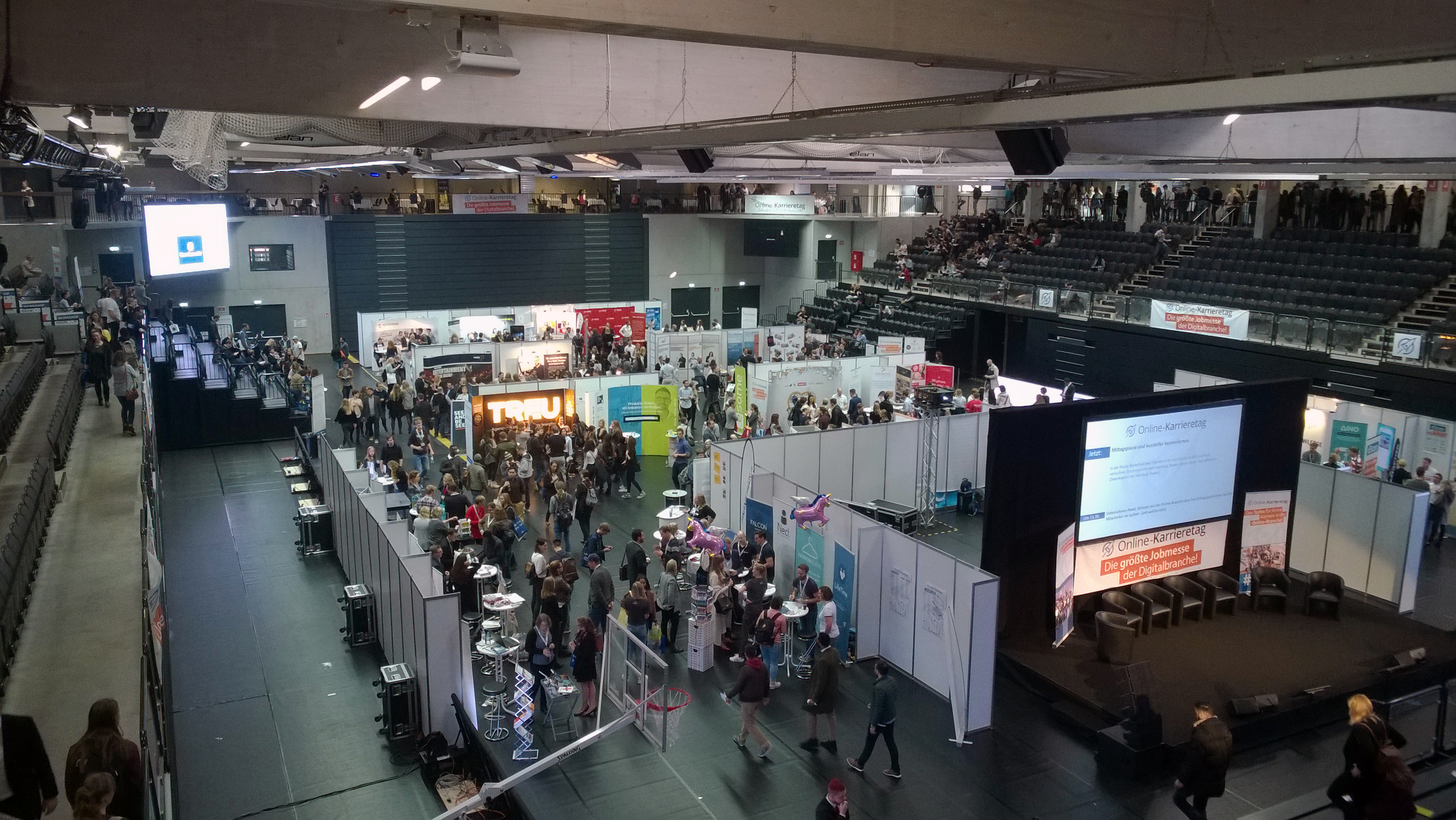 Edel-optics.de Arena während einer Jobmesse (Online-Karrieretag Hamburg)